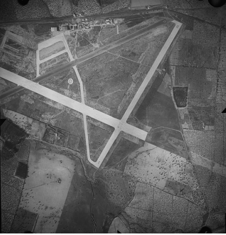 Year 1946